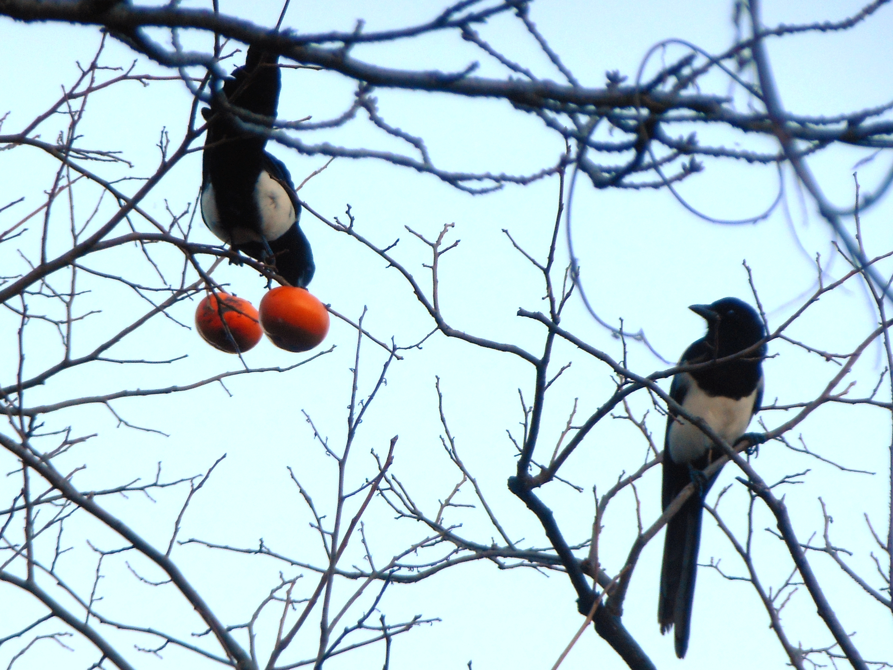 Magpie(Pica pica serica) pair on branch of Japanese persimmon, in Kono park, Saga city, Japan.